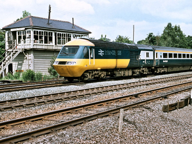 Railway Old Royston. This shows the railway in 1982 when it was still a main line.